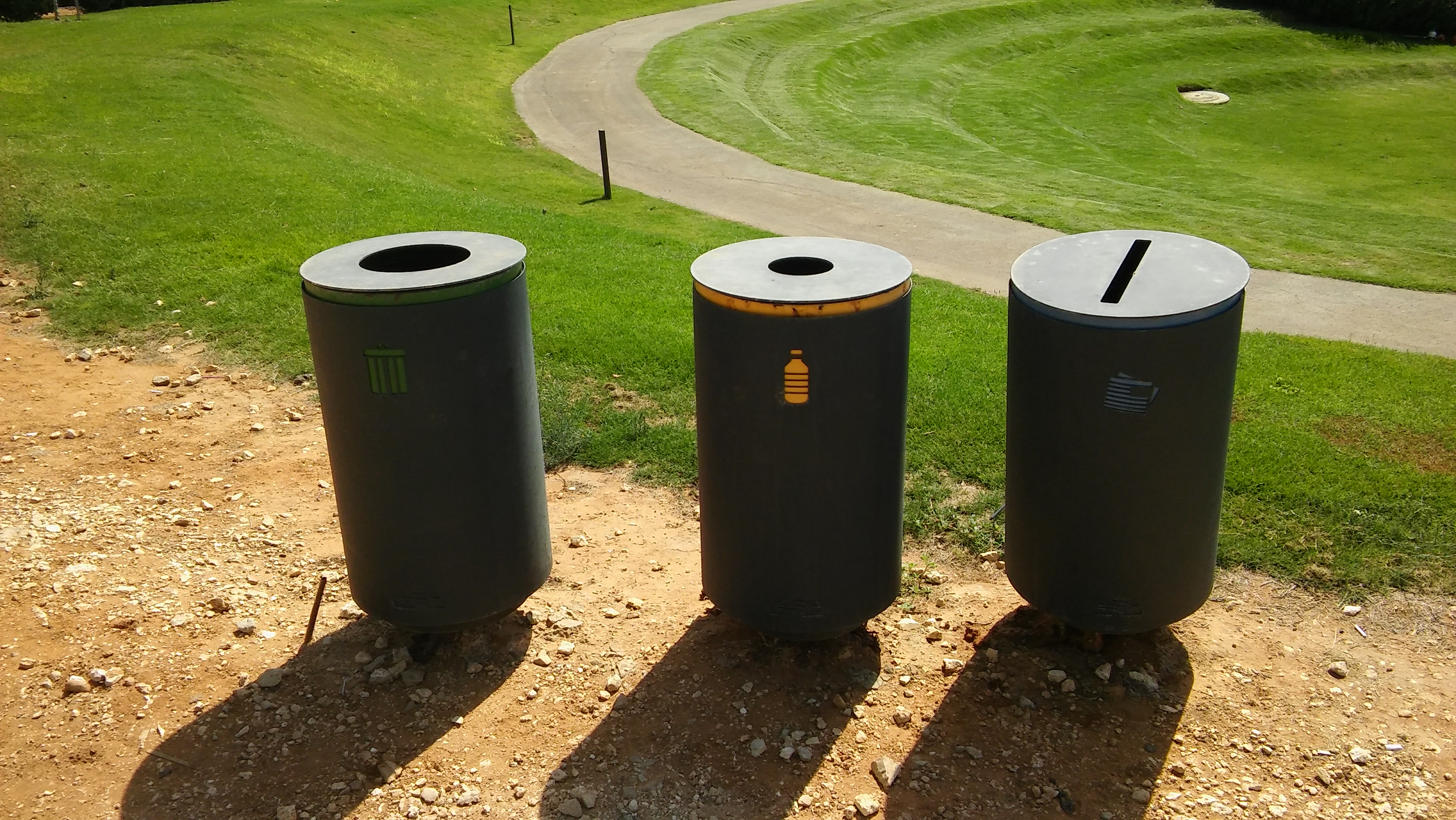 Ariel Sharon Park